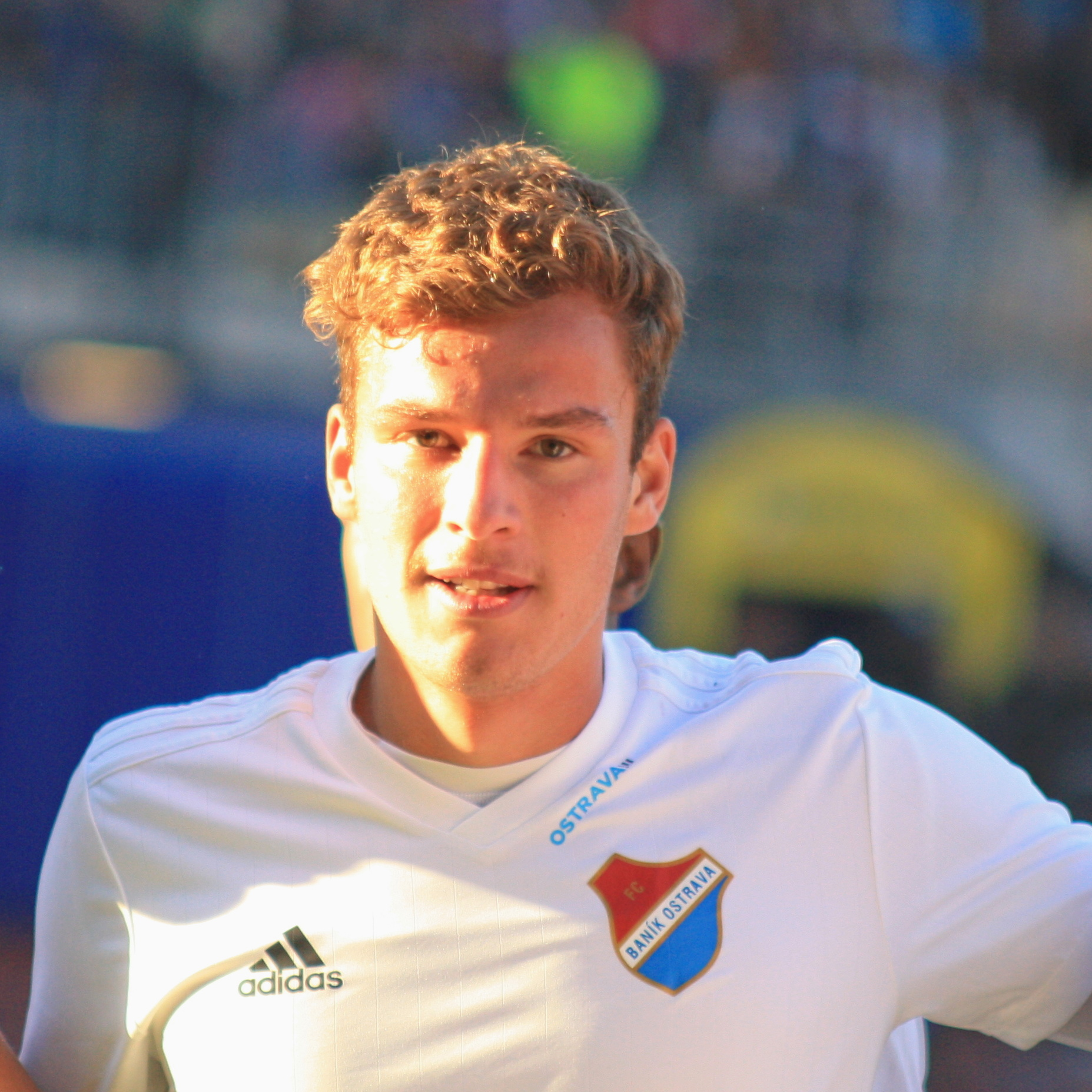 Ondřej Šašinka At Czech First League (Fortuna Liga) match FC Baník Ostrava-SK Slavia Praha played on 30. 9. 2018